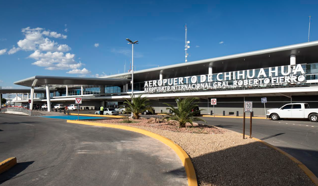 The Chihuahua International Airport after completed renovations in 2019.